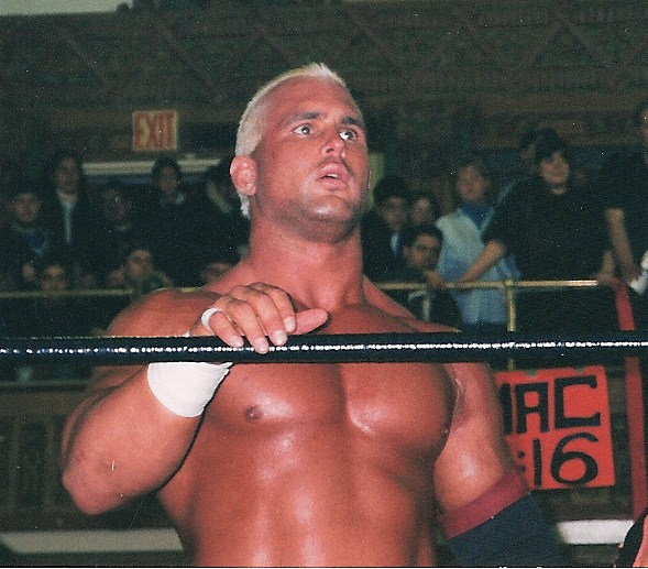 ECW @ Elks Lodge in Queens - March 13, 1998 RIP Chris.